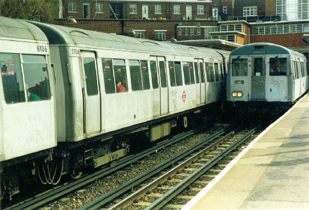 Rayner's Lane Station. Note facilities for both centre-, and outside-, third-rail power-collection.